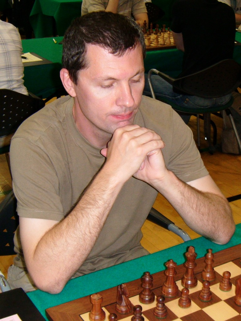 Vlastimil Babula playing in the Najdorf Memorial in Warsaw (Poland)